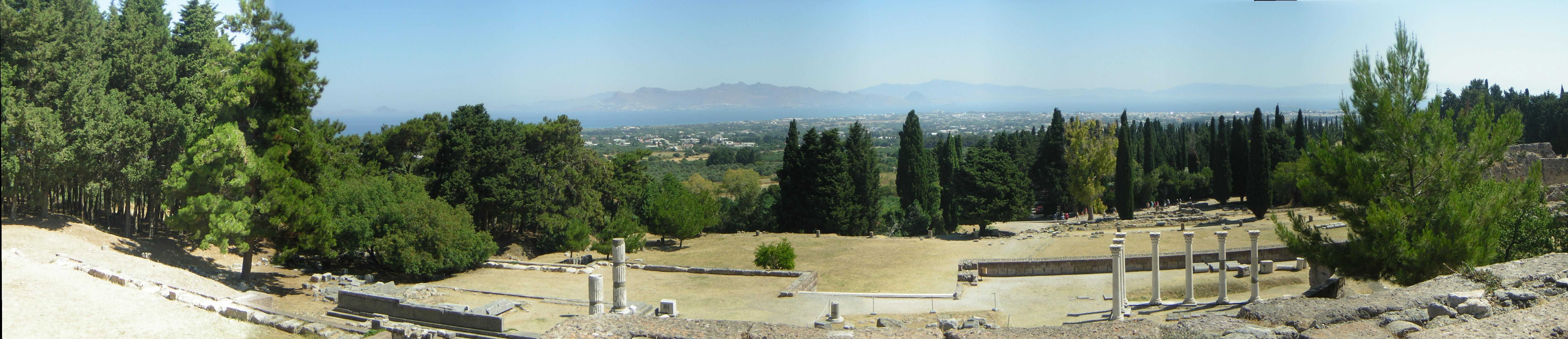 Asklepieion panoramic view